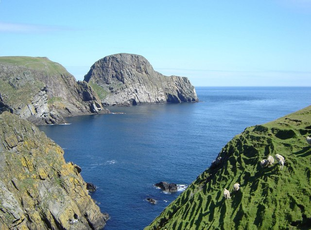 Precarious grazing, Fair Isle This cliff of terracettes is home to these sheep with a good head for heights! The magnificence of Sheep Rock dominates the background.